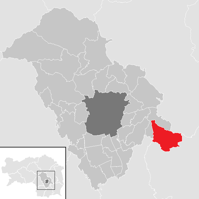 District Graz-Umgebung, Styria